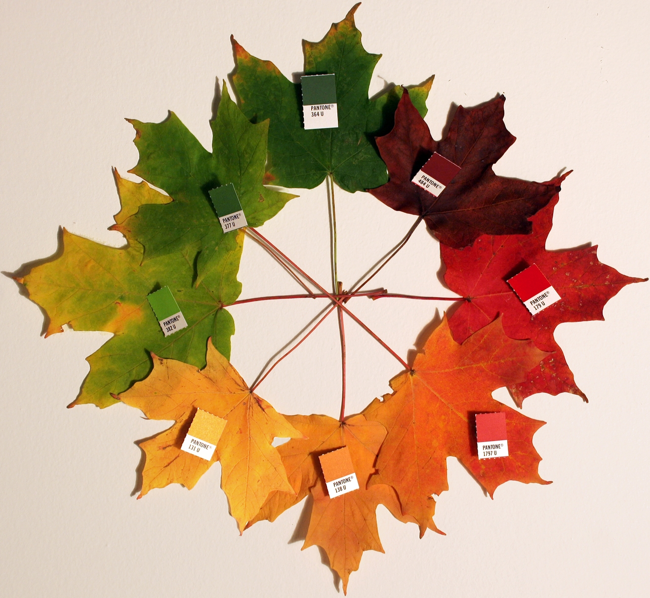 Original description: "pantone autumn - All from the same tree I should add." Sugar Maple Acer saccharum. Cropped from Image:Autumn leaves (pantone).jpg.